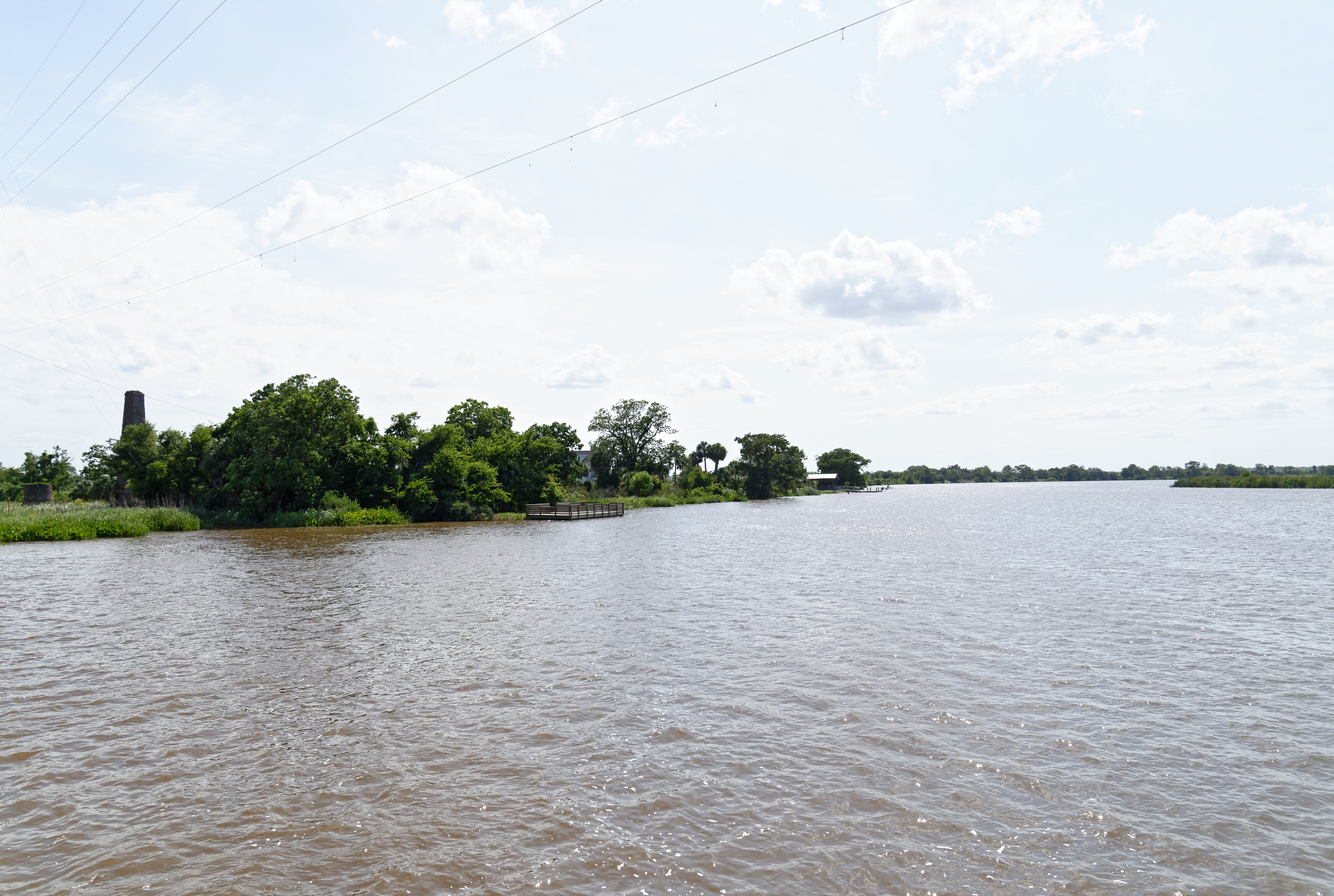 The Butler River and Butler Island to the left. In McIntosh County, Georgia, US. Taken from the bridge on US 17 over the Butler River. The Butler River is a branch of the Altamaha River.